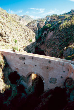 The only access to the Alta Alpujarra